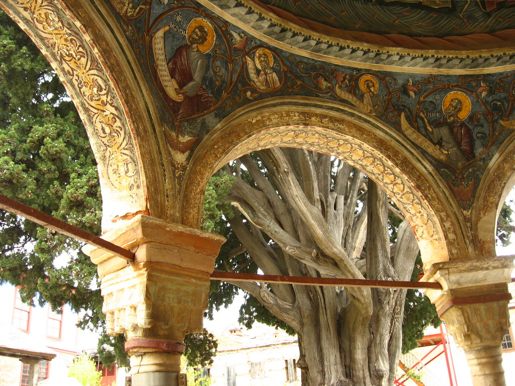 Cypress of St. Athanasius the Athonite, said to be over 1000 years old, as seen from the entrance in the church of Great Lavra monastery on Mount Athos.